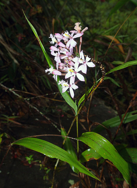 Native to the tropical Andes of South America. Photo from above Ulba, Ecuador. In context at